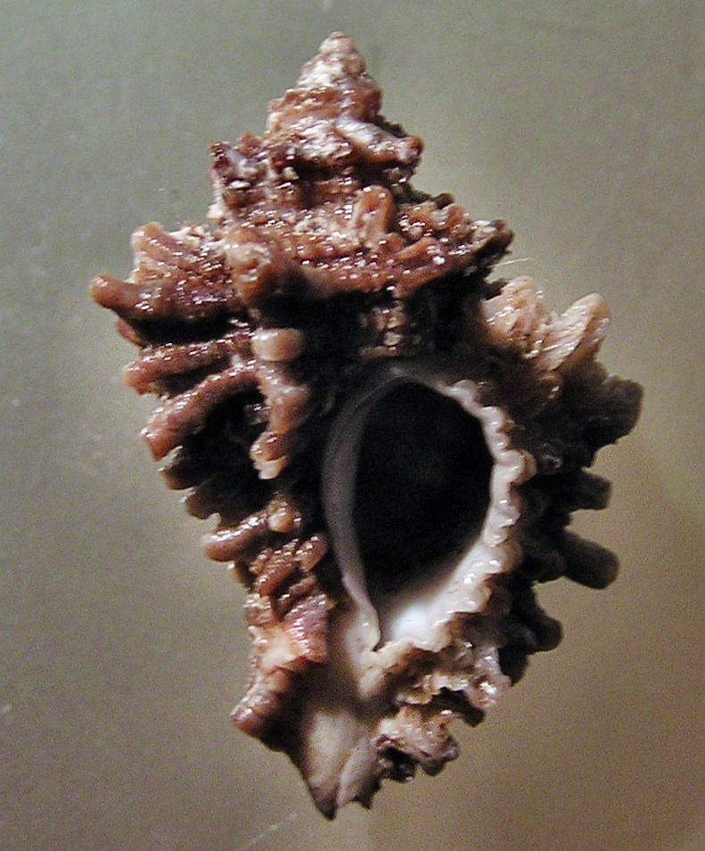 Ocenebra erinacea (Linnaeus, 1758) (synonym : Ocenebra erinaceus hanleyi Dautzenberg, 1887) ; a murex snail from the family Muricidae; Sicily